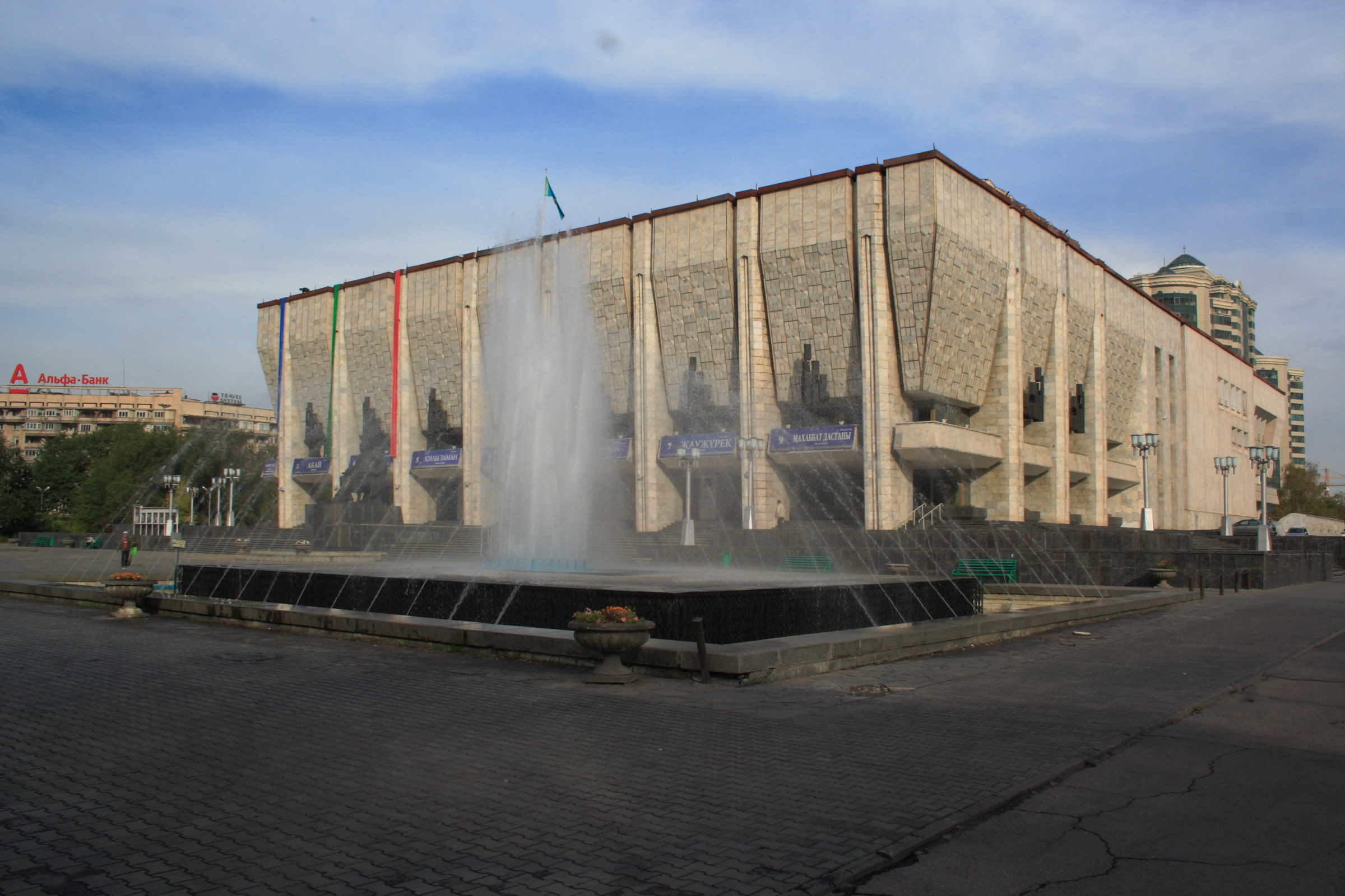 Views of Almaty